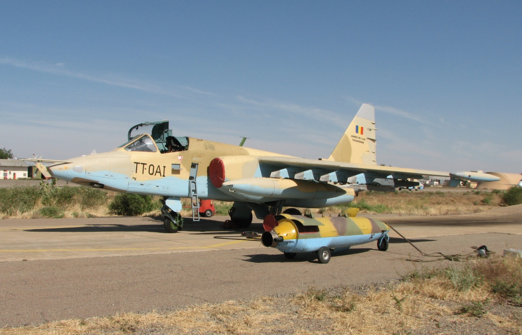 Chad Air Force Sukhoi Su-25 at N'djamena Airport